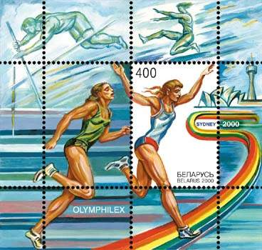 Stamp of Belarus